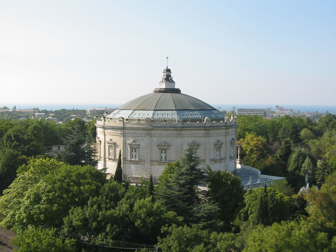 Panorama building. A panorama created by Franz Roubaud, and restored after its destruction in 1942, is housed in a purpose-built building, and depicts the situation at the height of the siege, on 18 June 1855.